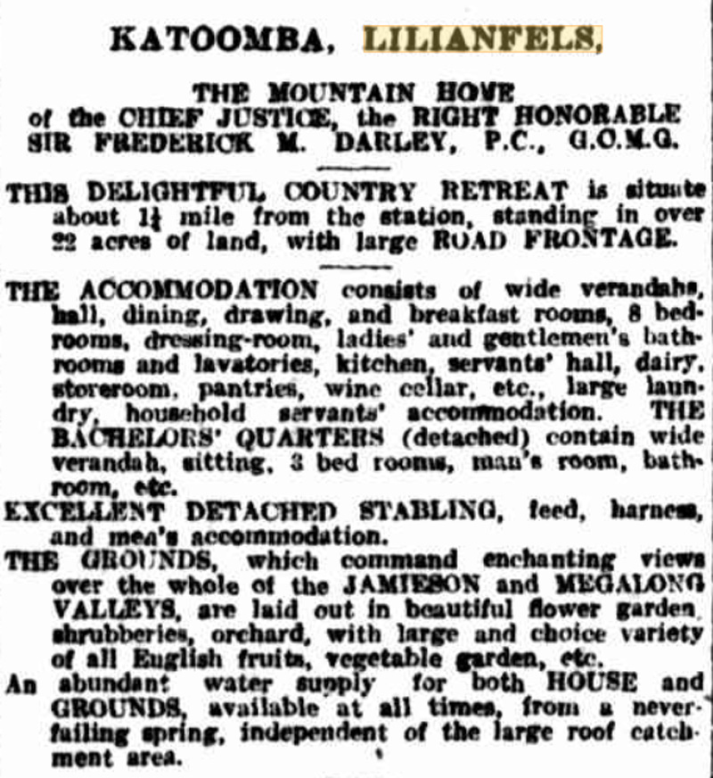 Advertisement for the sale of Lilianfels, Katoomba 1907